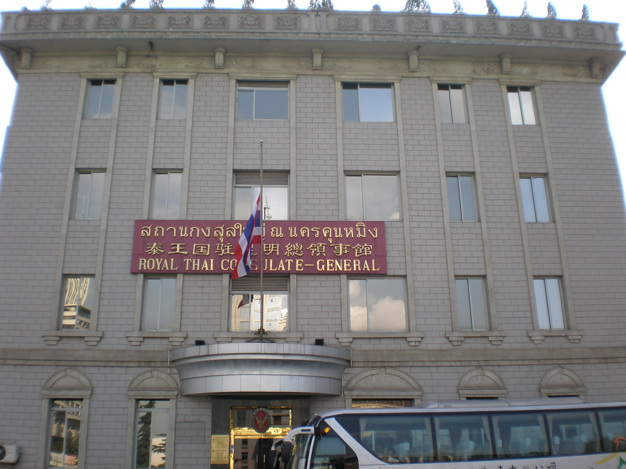 The Thai Consulate General on East Dongfeng Road in Kunming, Yunnan.